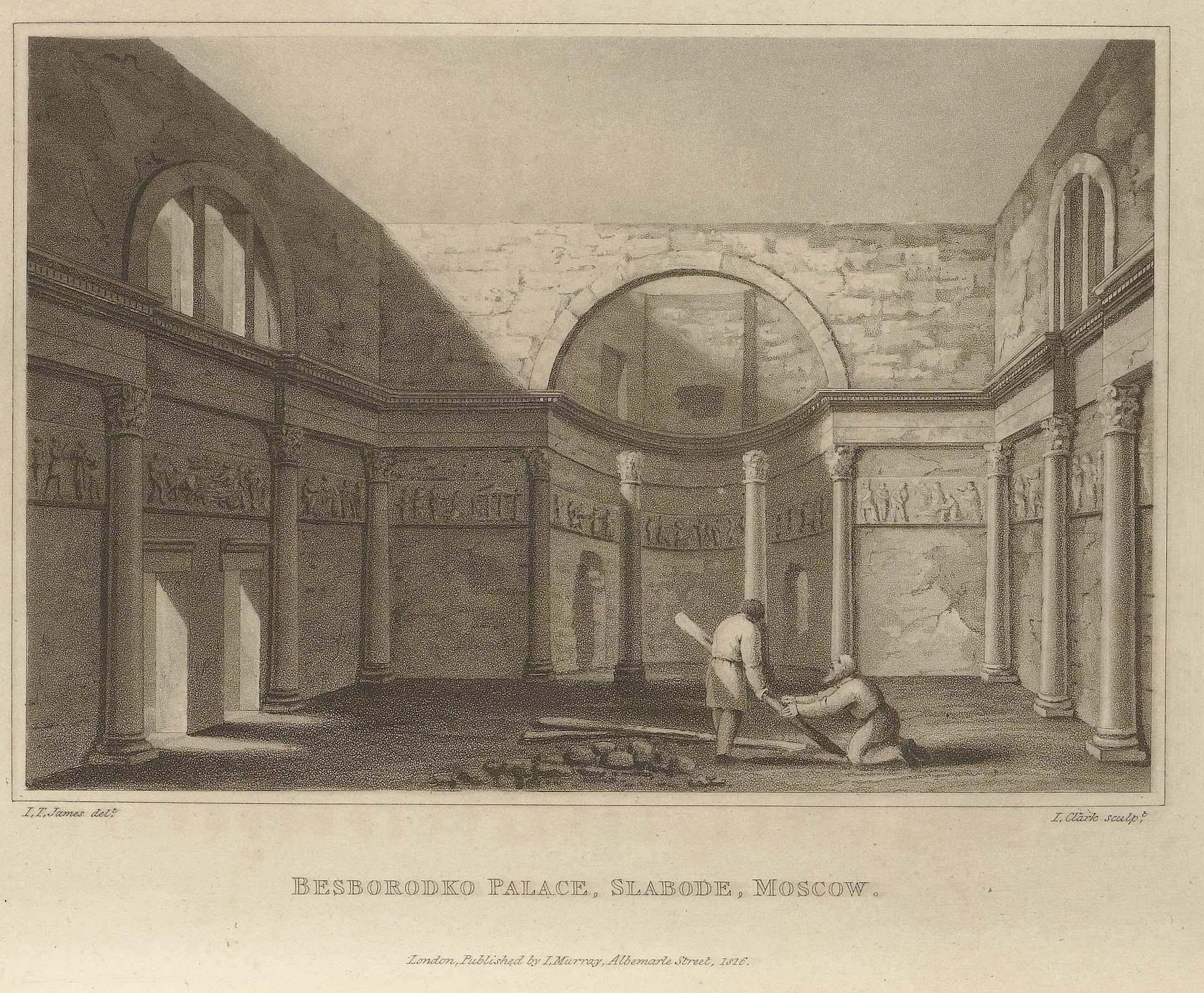 The interior of the Besborodko Palace, Sloboda in Moscow, after the destruction in 1812.